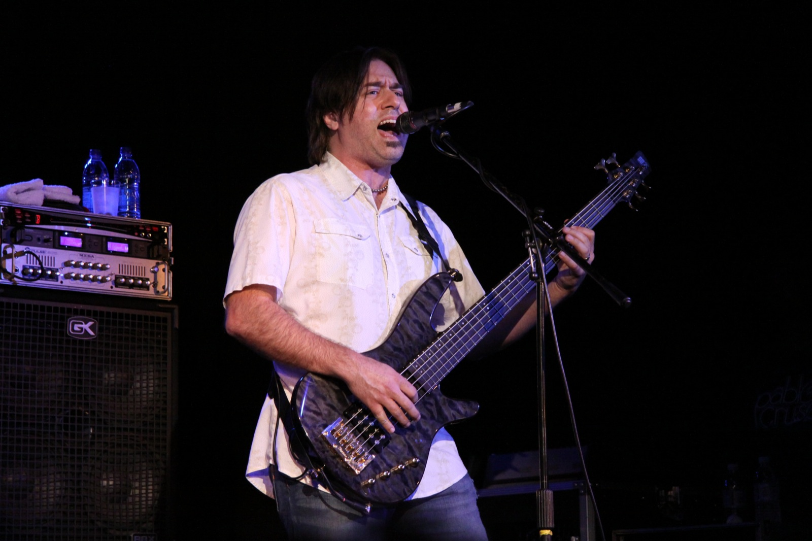 Bass guitarist George Gabriel performing with Pablo Cruise, 2009.